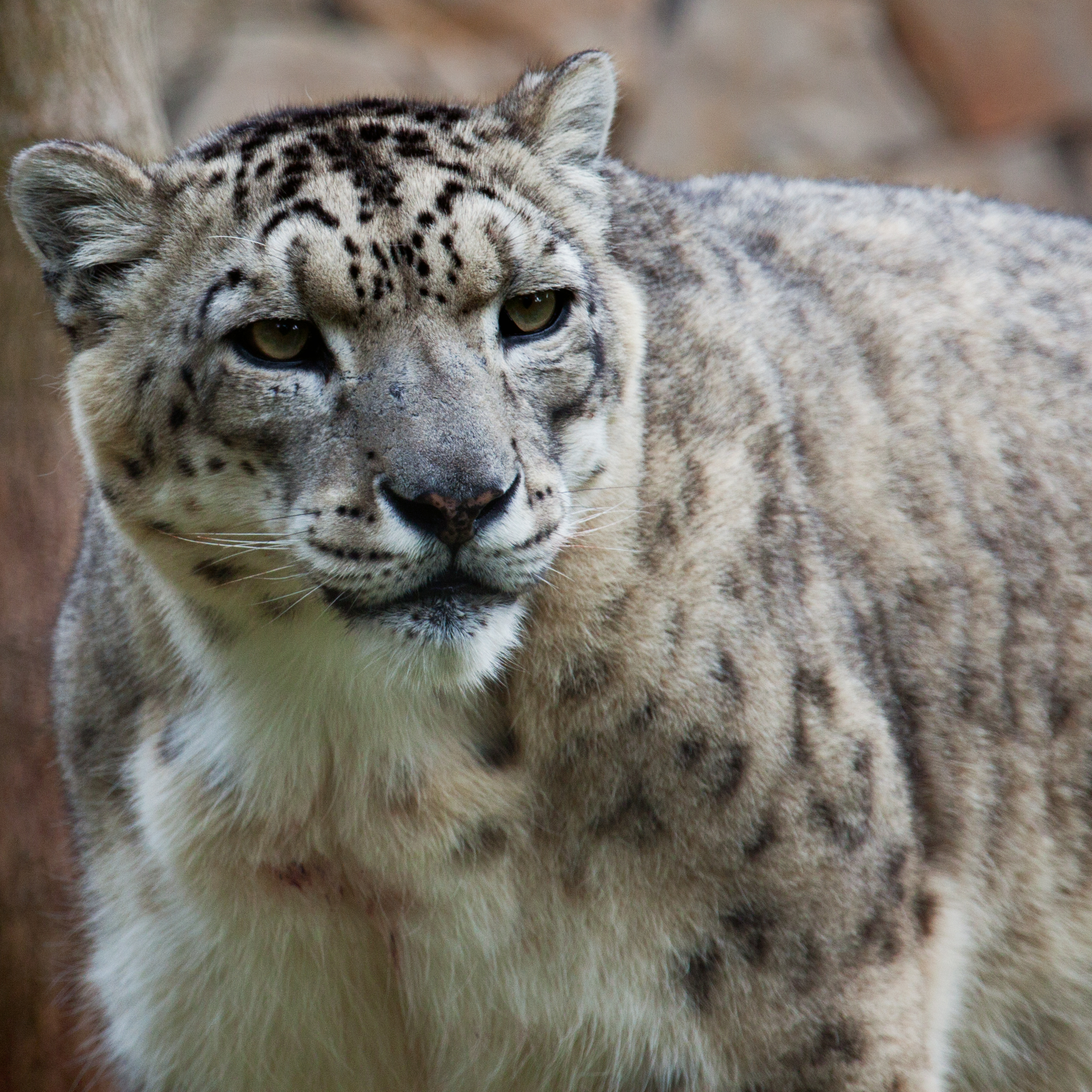 Snow Leopard - Uncia uncia - Photography taken at the Lisbon Zoo